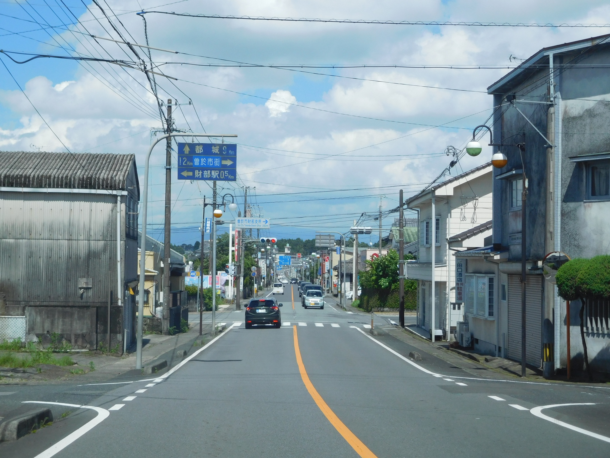 Kagoshima Prefectural Road No.2 Miyakonojo - Hayato Line at Central Takarabe, Soo City, Kagoshima, Japan)